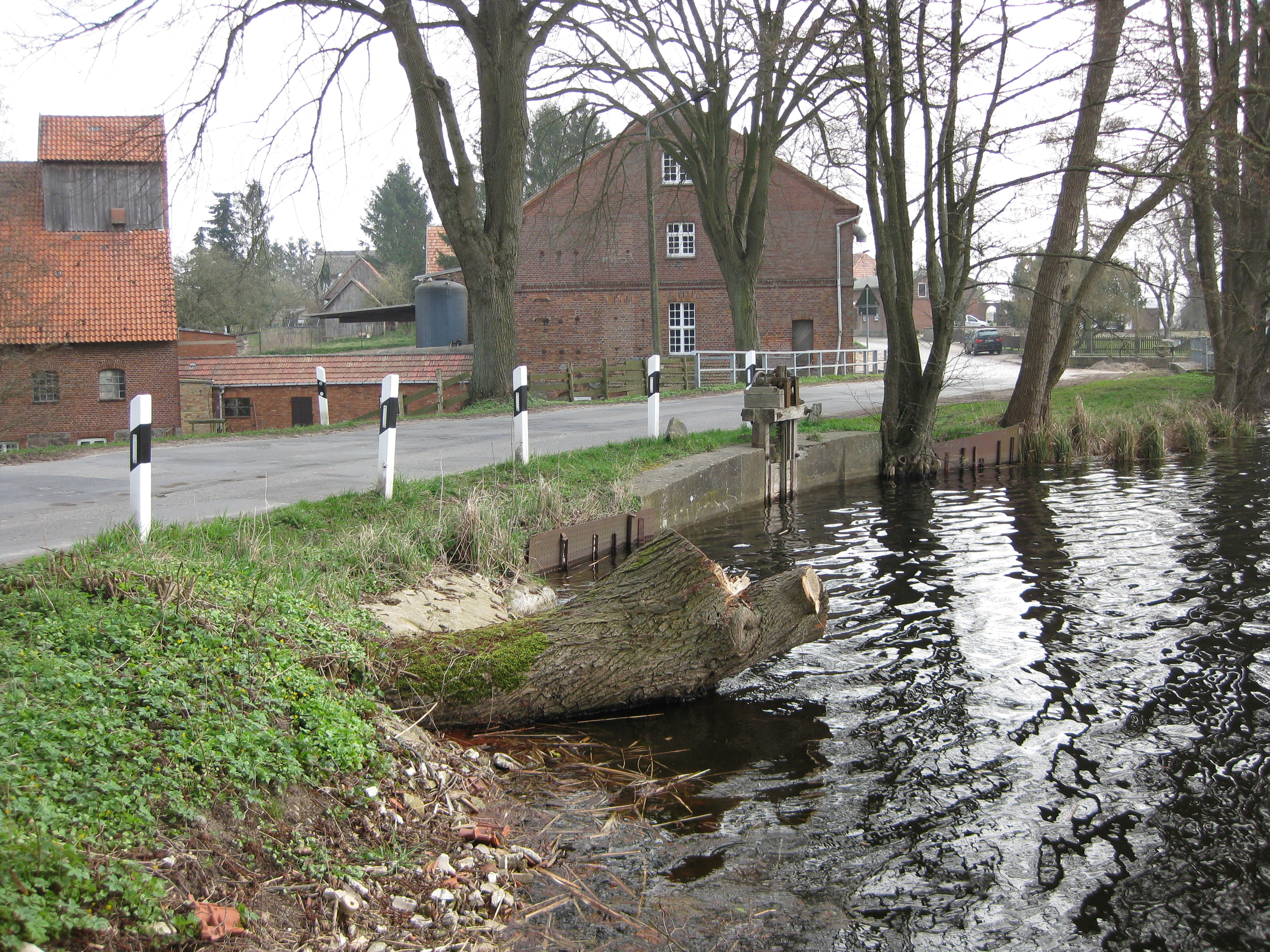 Watermill in Stove near Carlow